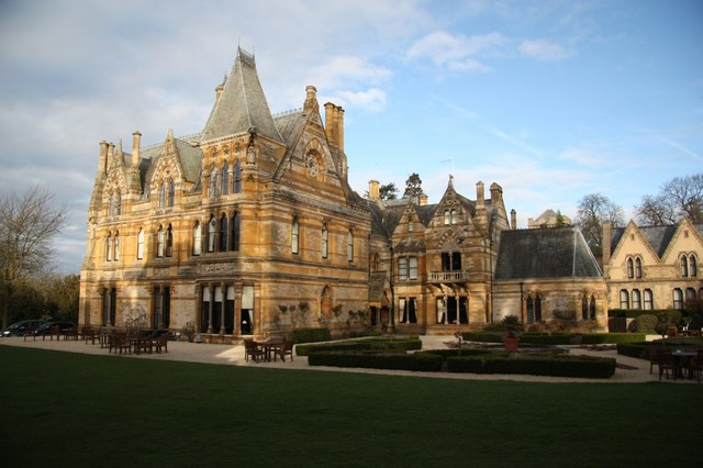 Ettington Park Wonderful Gothic mansion by John Prichard for E.P.Shirley 1858-63, now a Country House Hotel